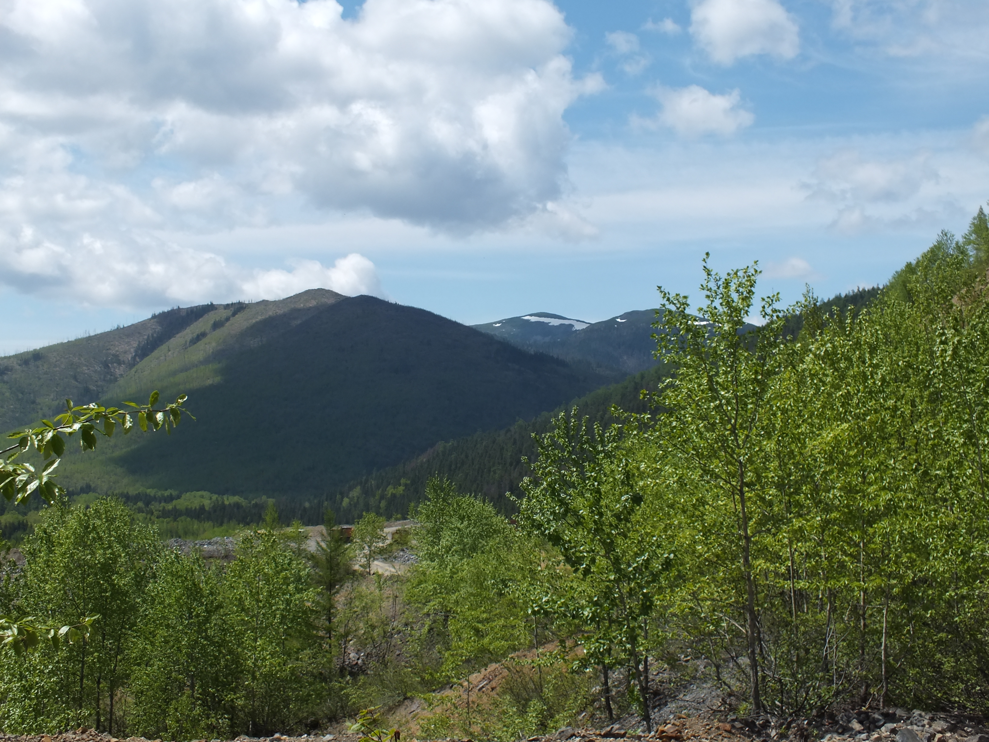 Gorniy Solnechniy rayon Khabarovskiy kray